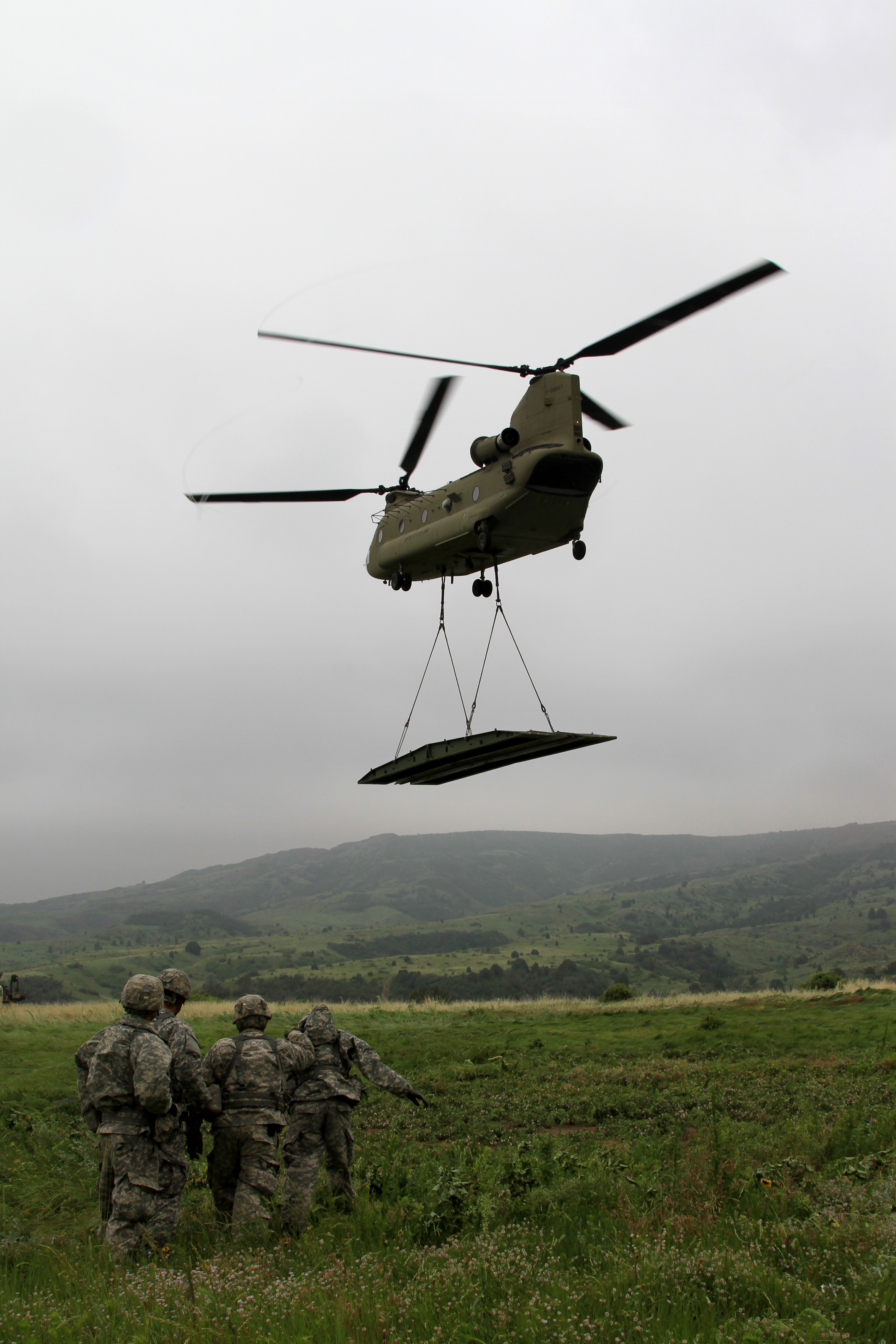 Soldiers of Alpha Company, 299th Brigade Engineer Battalion, 1st Stryker Brigade Combat Team, 4th Infantry Division, fight to stand against the rotor wash of a CH-47 Chinook helicopter from Bravo Company, 2nd General Support Aviation Battalion, 4th Combat Aviation Brigade, 4th Infantry Division, during sling load training for the Rapidly Emplaced Bridge System, July 9, 2015. “Sling loading the REBS is unique and we’ve learned from our training at the Piñon Canyon Maneuver Site that there’s a lot of air assault operations within a Stryker brigade,” said 1st Lt. Ryan Hall, platoon leader, Alpha Company, 299th BEB, 1st SBCT, 4th Infantry Division. “This training gives us a new facet and new ability to help provide more mobility to the brigade.”